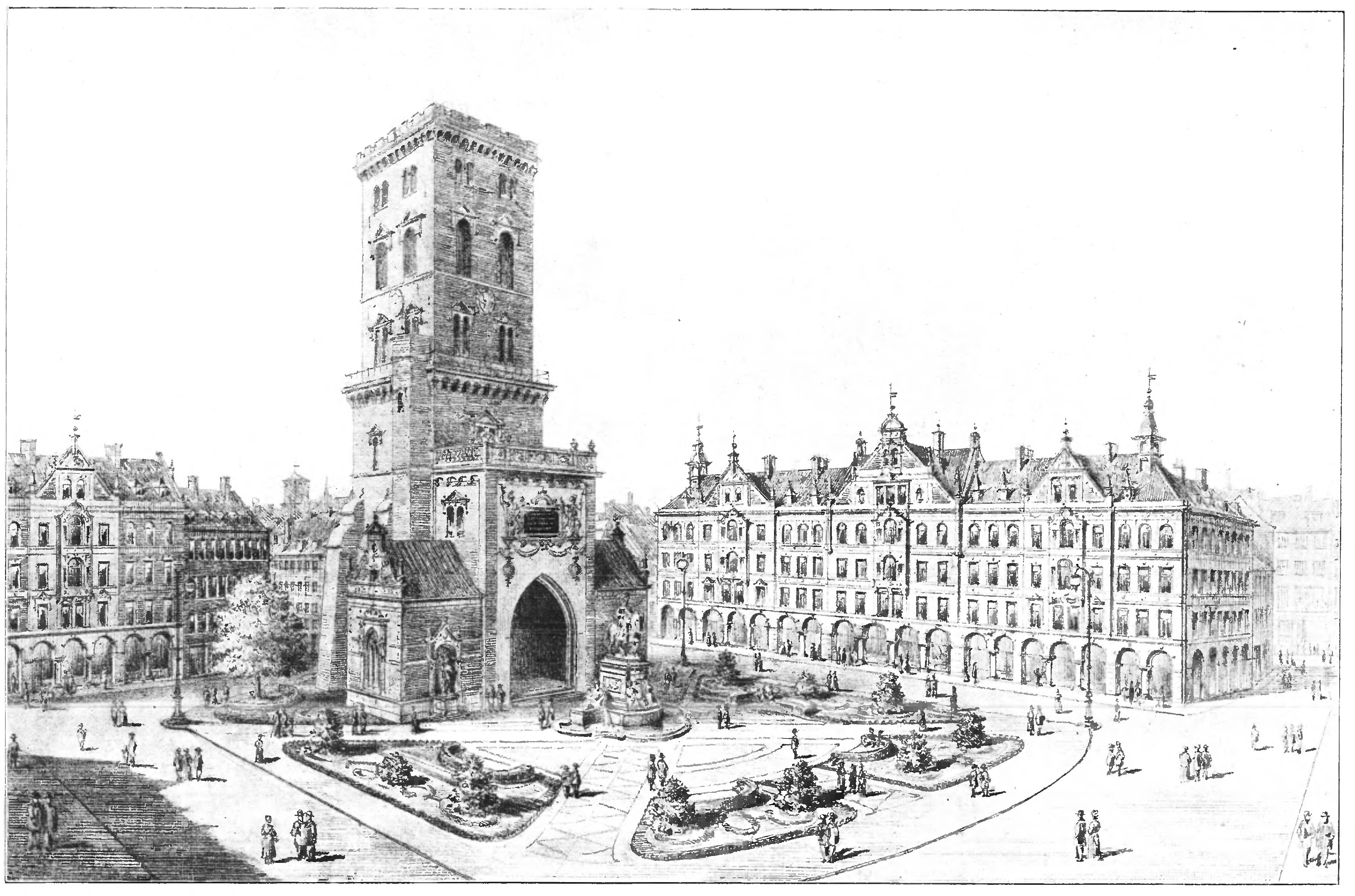 Project for a monument at Nikolaj Square, Copenhagen. Perspective.